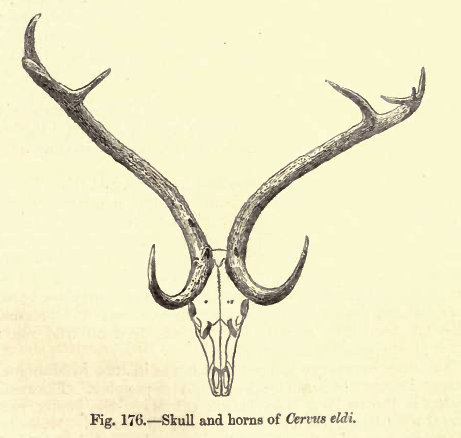 Skull and antlers of Eld's deer